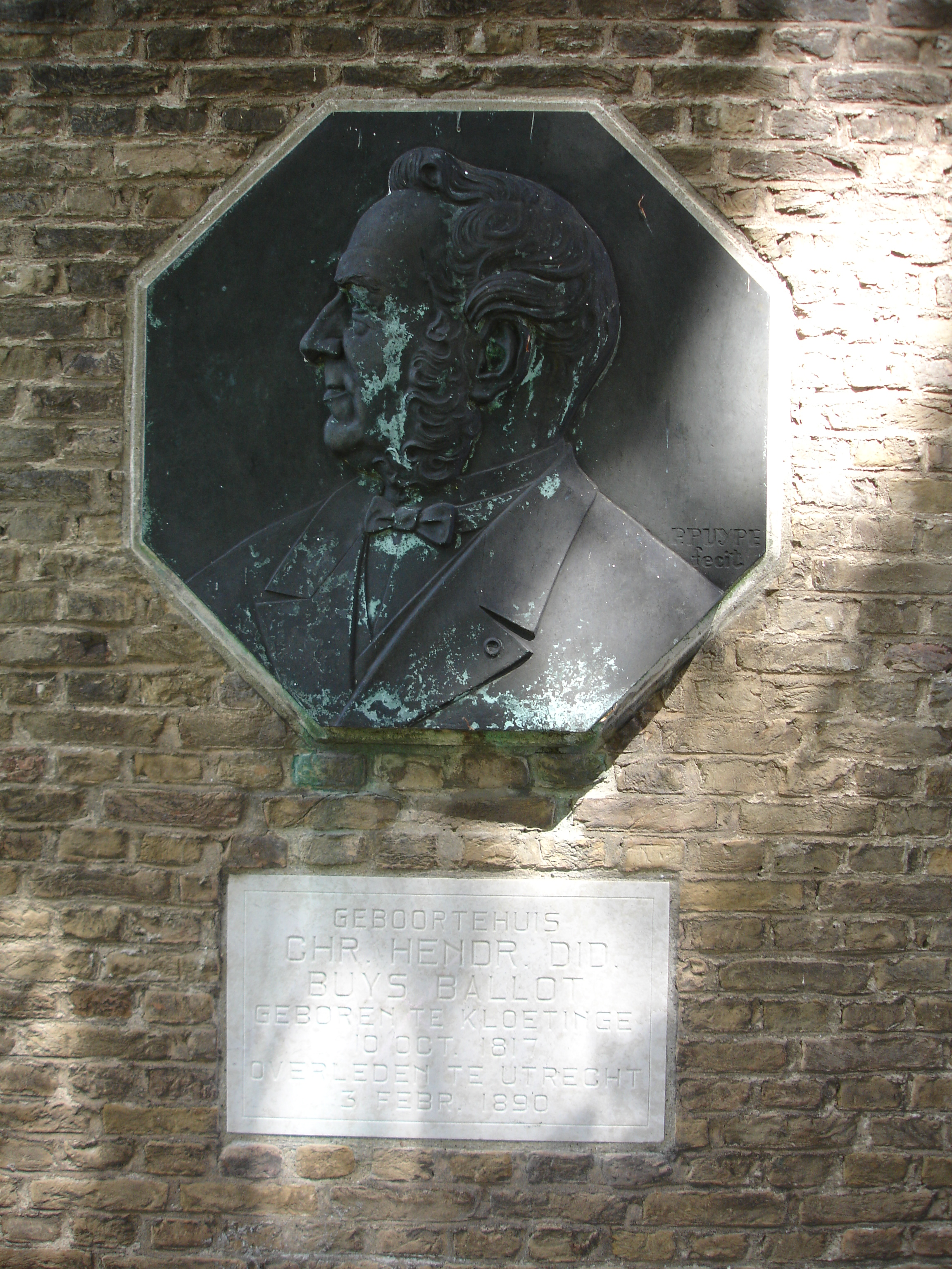 Plaque at the birth house of Buys Ballot in Kloetinge, Zealand.